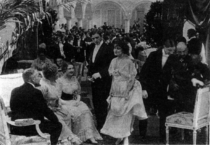 The scene with Kholodnaya, Polonsky, Perestiani, Koreneva and Rakhmanova from film "Life for life" (1916)